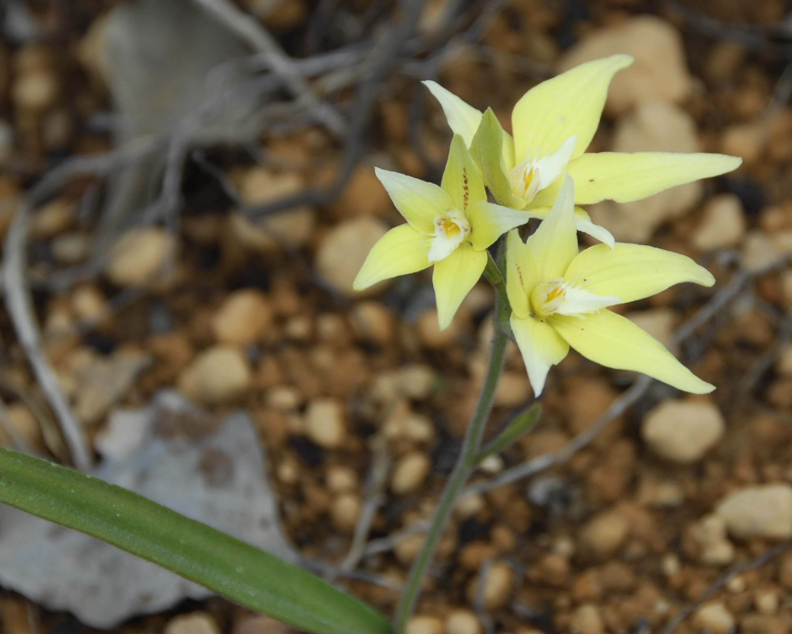 A species of Caladenia, probably Caladenia flava in a disturbed and seasonally wet area of Jarrah Forest. The specimen was one of many orchid, Drosera, and Stylidium species to occupy the area.